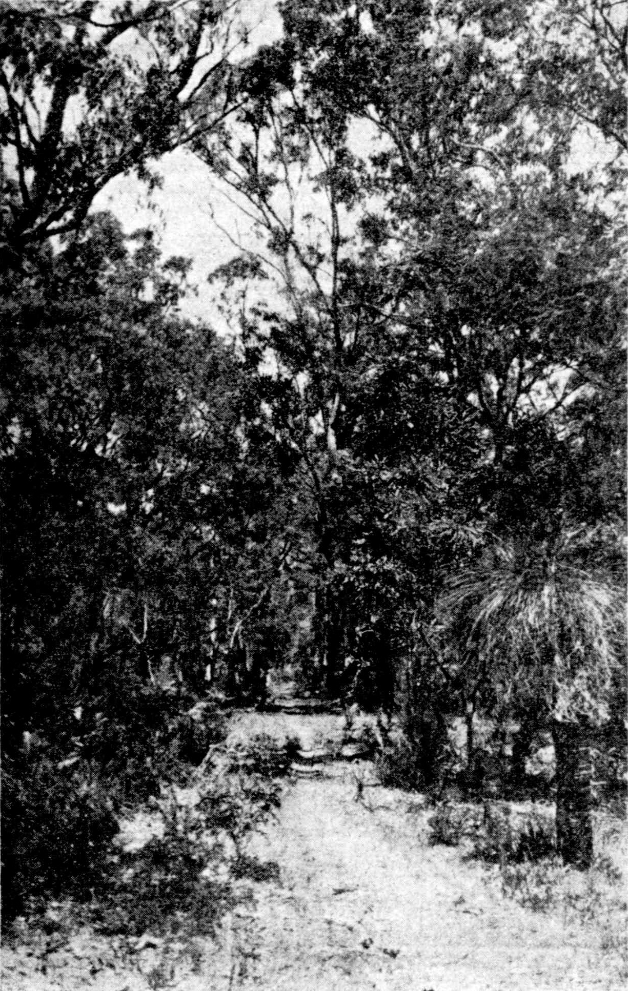 View along Old Coast Road in Western Australia in 1920. Original caption: "THE NOW NOTORIOUS GHOST-ROAD: It is really the old coast road from Pinjarra to Bunbury, but a sequence of tragedies in the Lake Clifton district has given it its sinister name.